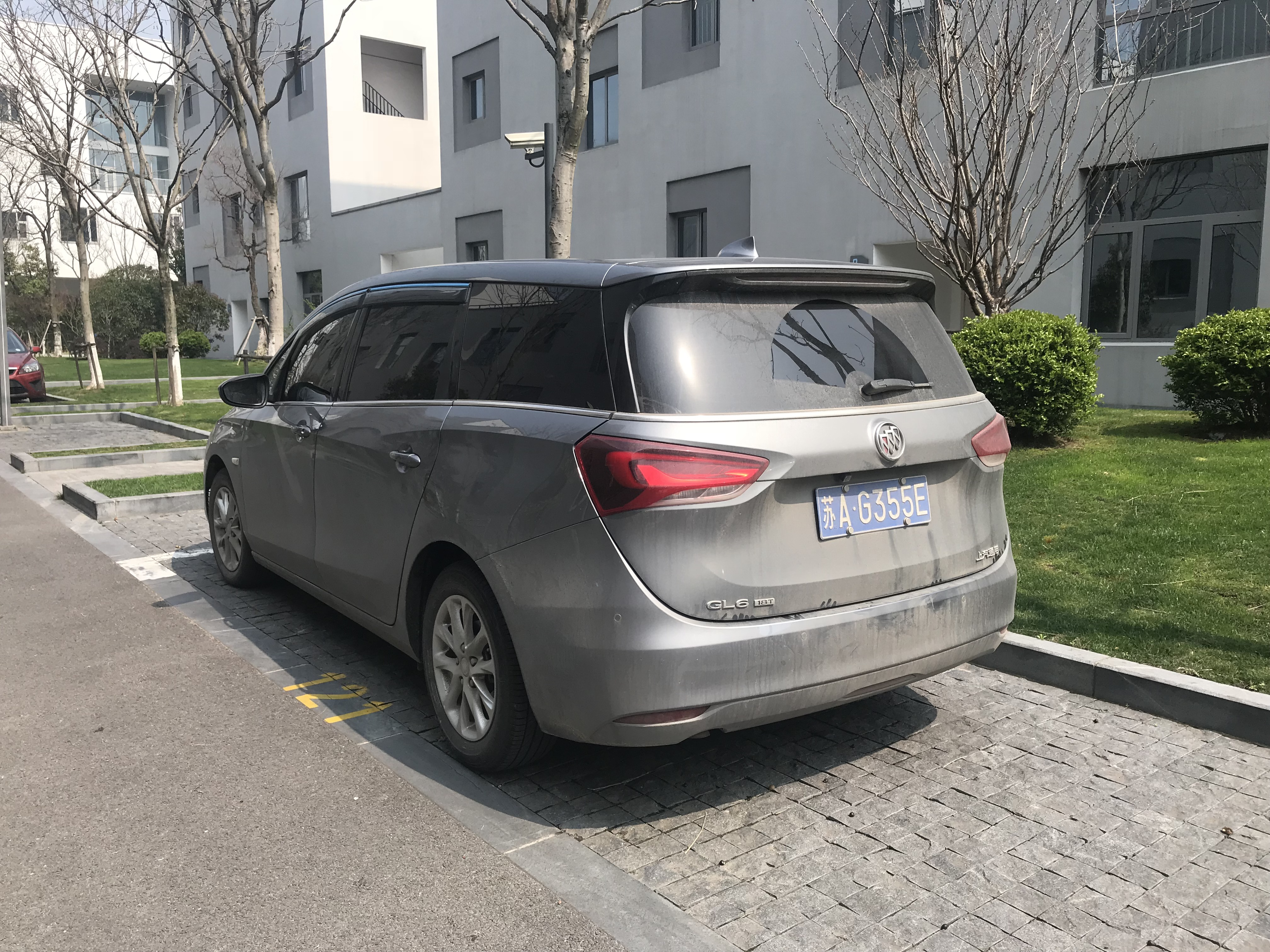 Buick GL6 compact MPV